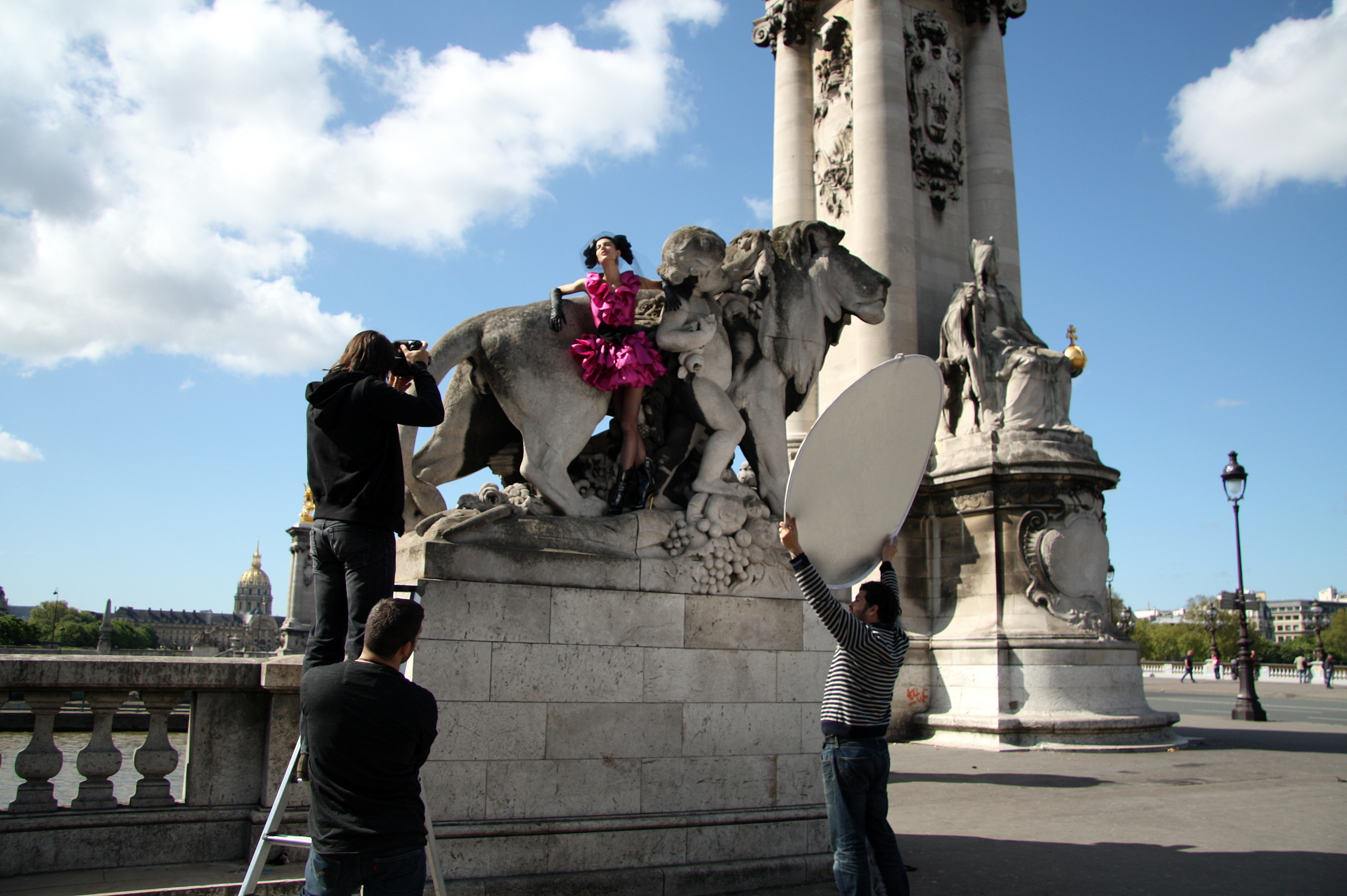 Photo shoots near Pont Alexandre III, Paris